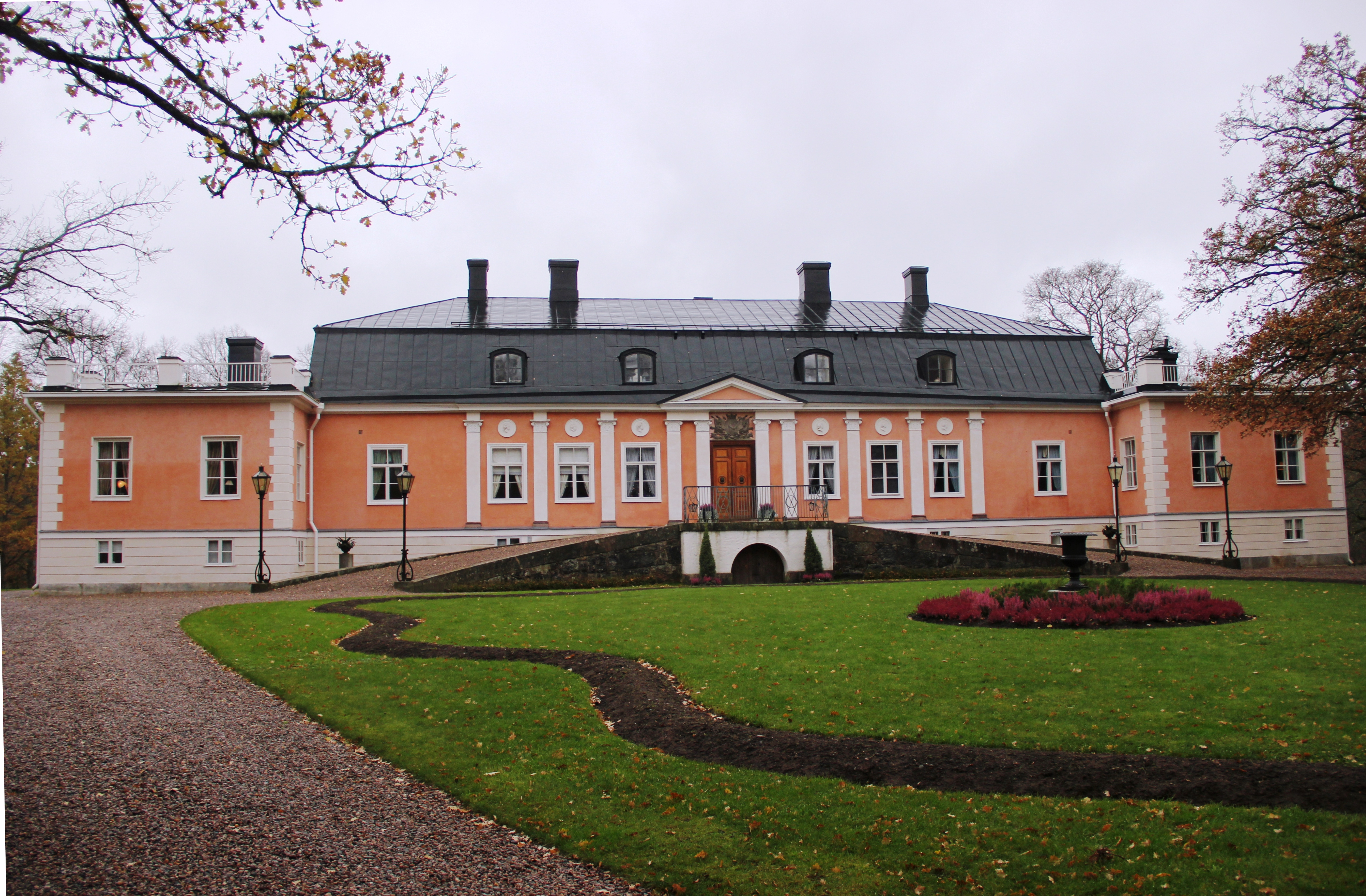 Joensuu (Åminne) estate, manor house, Halikko, Salo, Finland